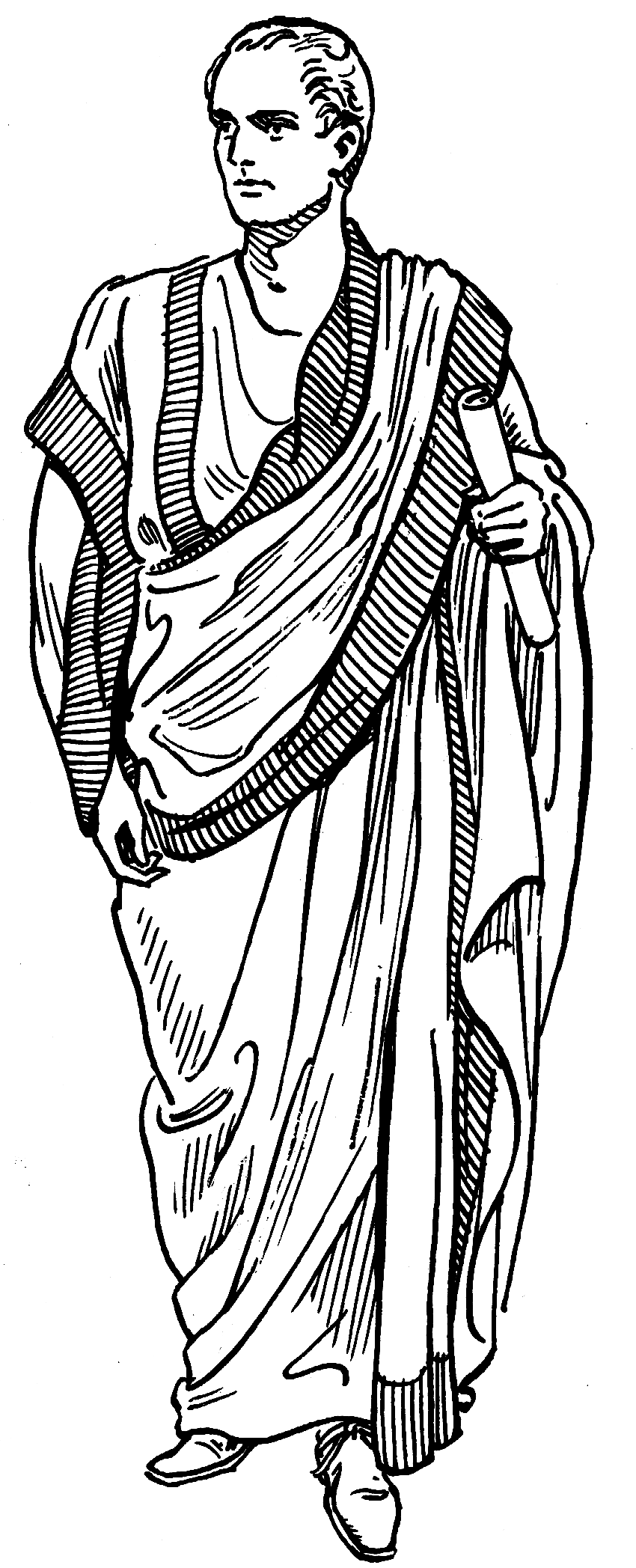 Line art drawing of a man in a toga.